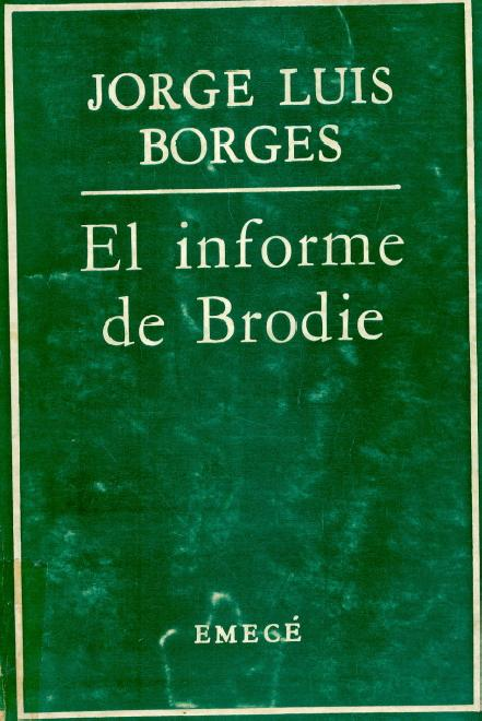 A picture of the book "El informe de Brodie"